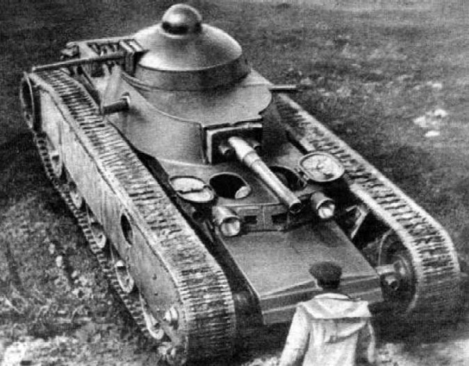 Tank Grotte TG during field test, September 1931